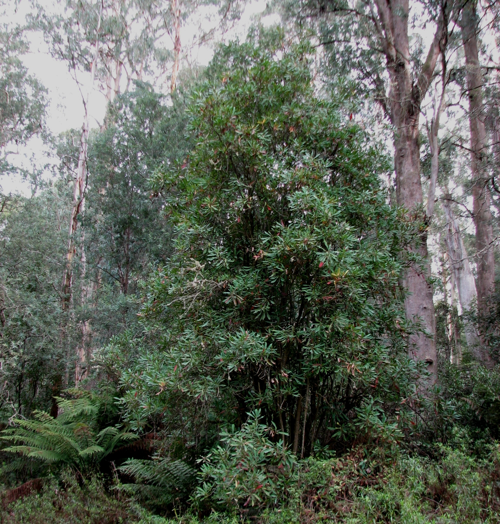 Telopea oreades, Errinundra National Park, Victoria, Australia